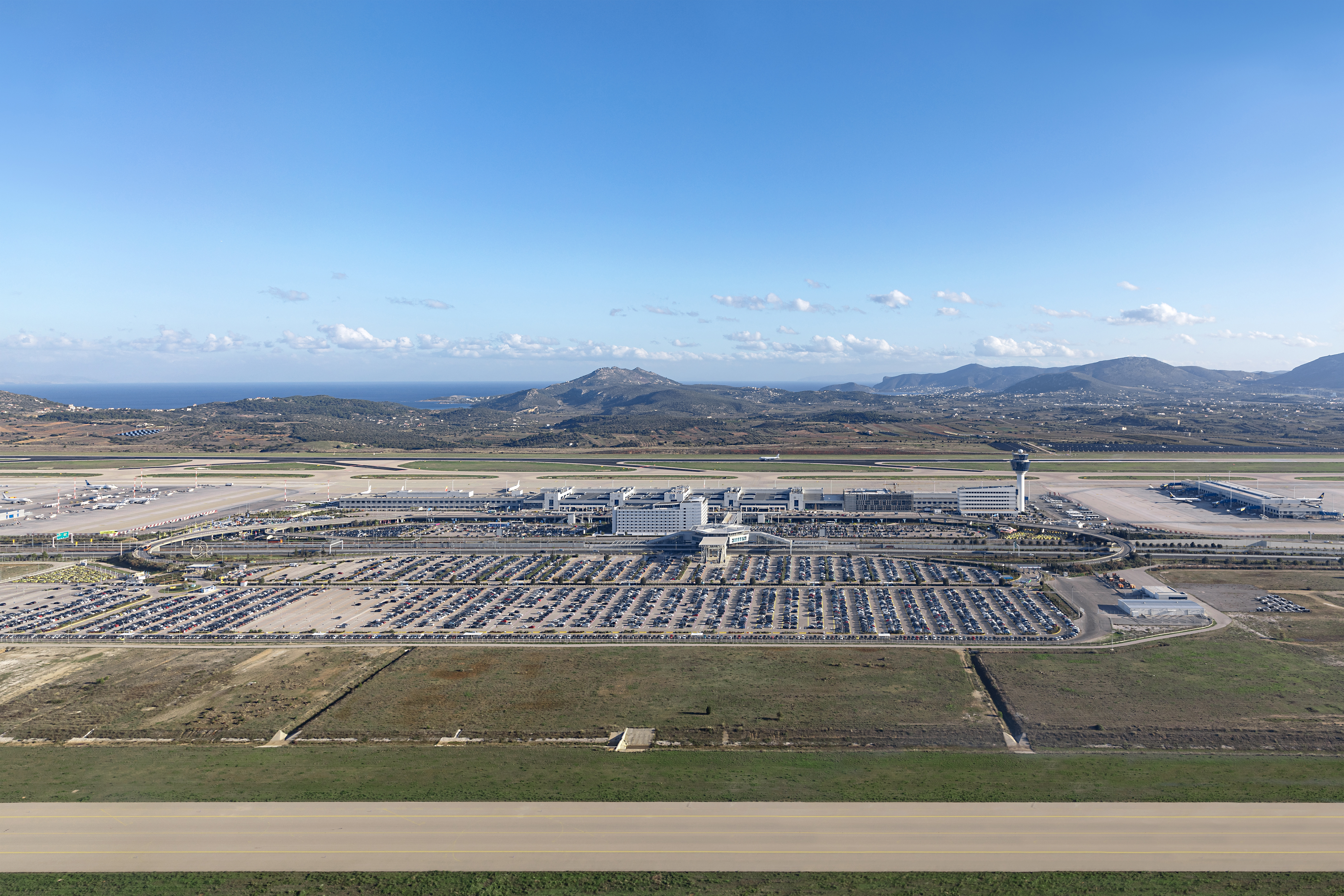 Athens International Airport, Greece.